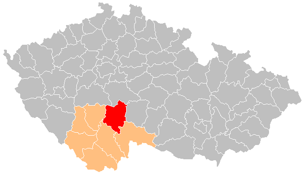 District of Tábor